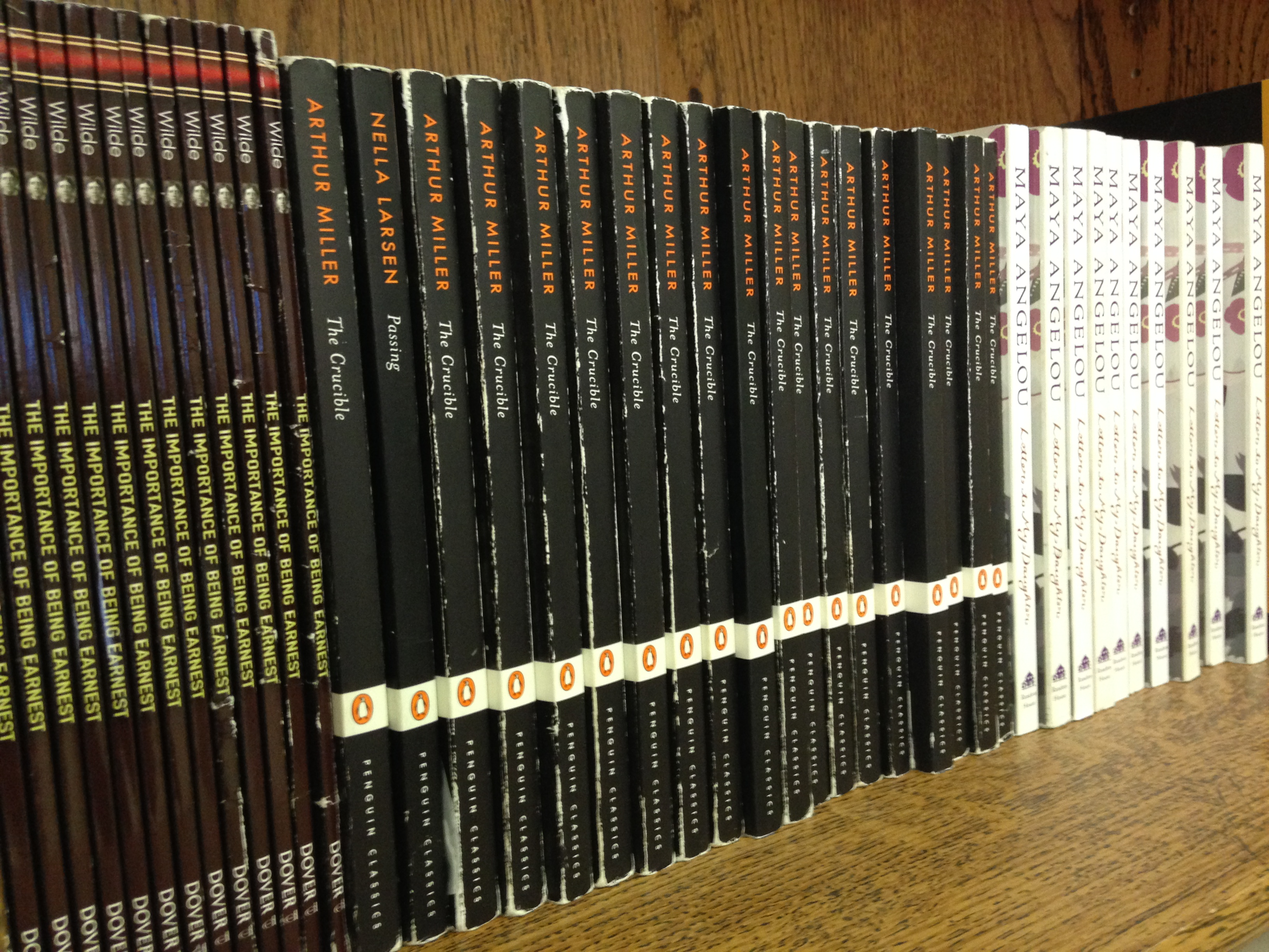 Classroom sets of classic books on a bookshelf